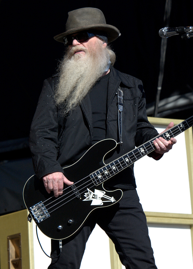 Dusty Hill of ZZ Top performing in Finland, in PuistoBlues 2010